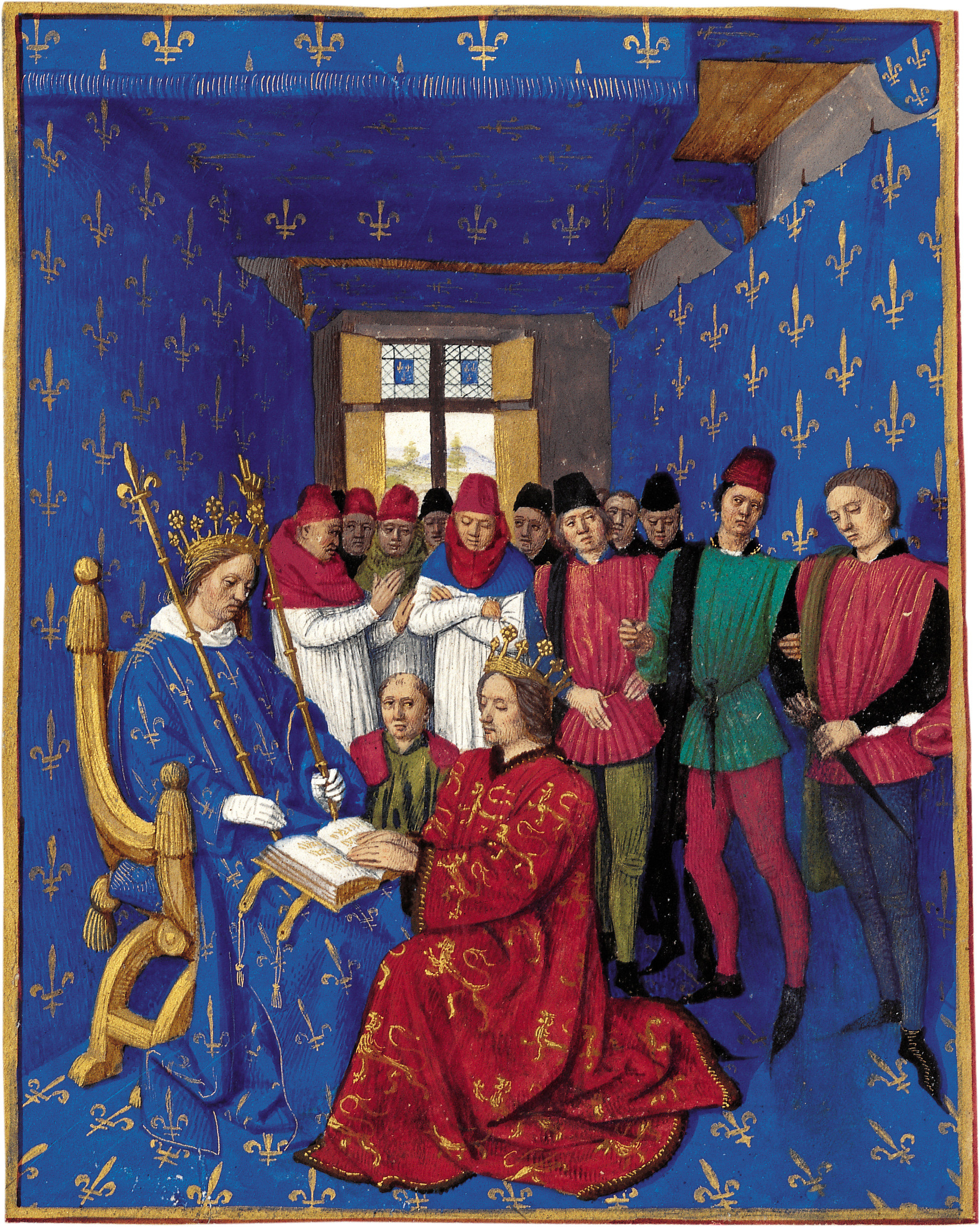 Hommage_of_Edward_I_to_Philippe_le_Bel